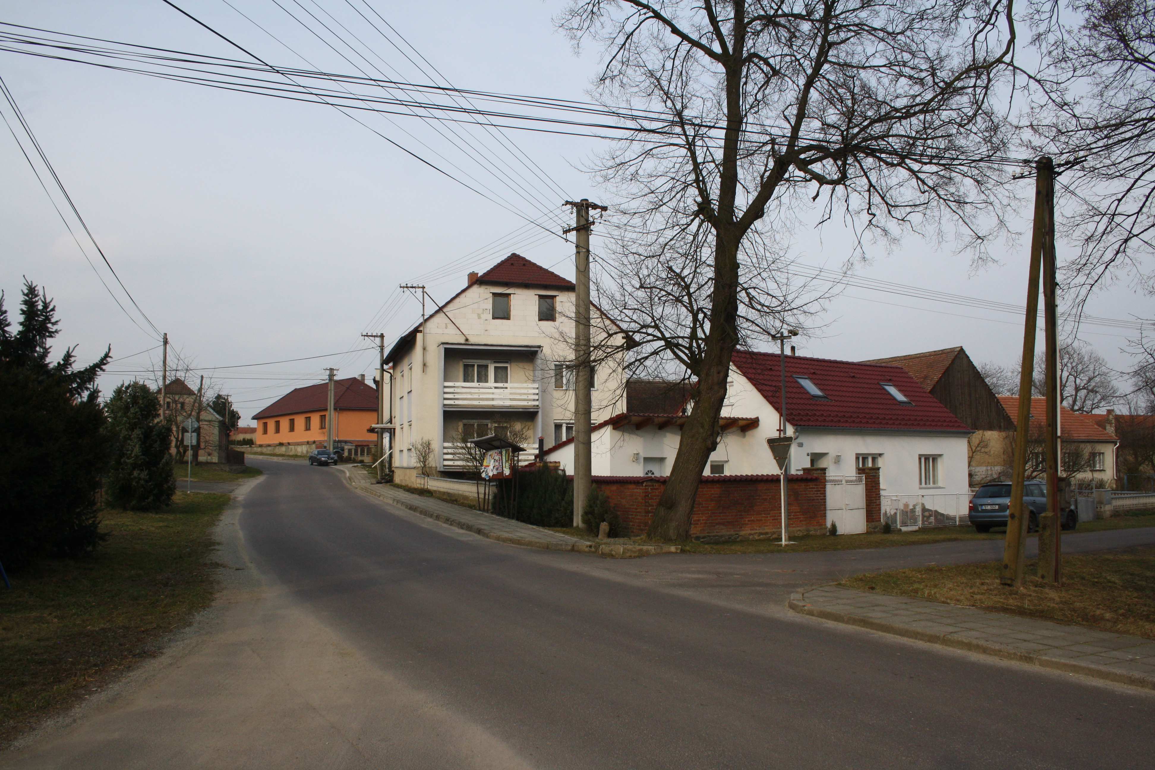 Center of Odunec.